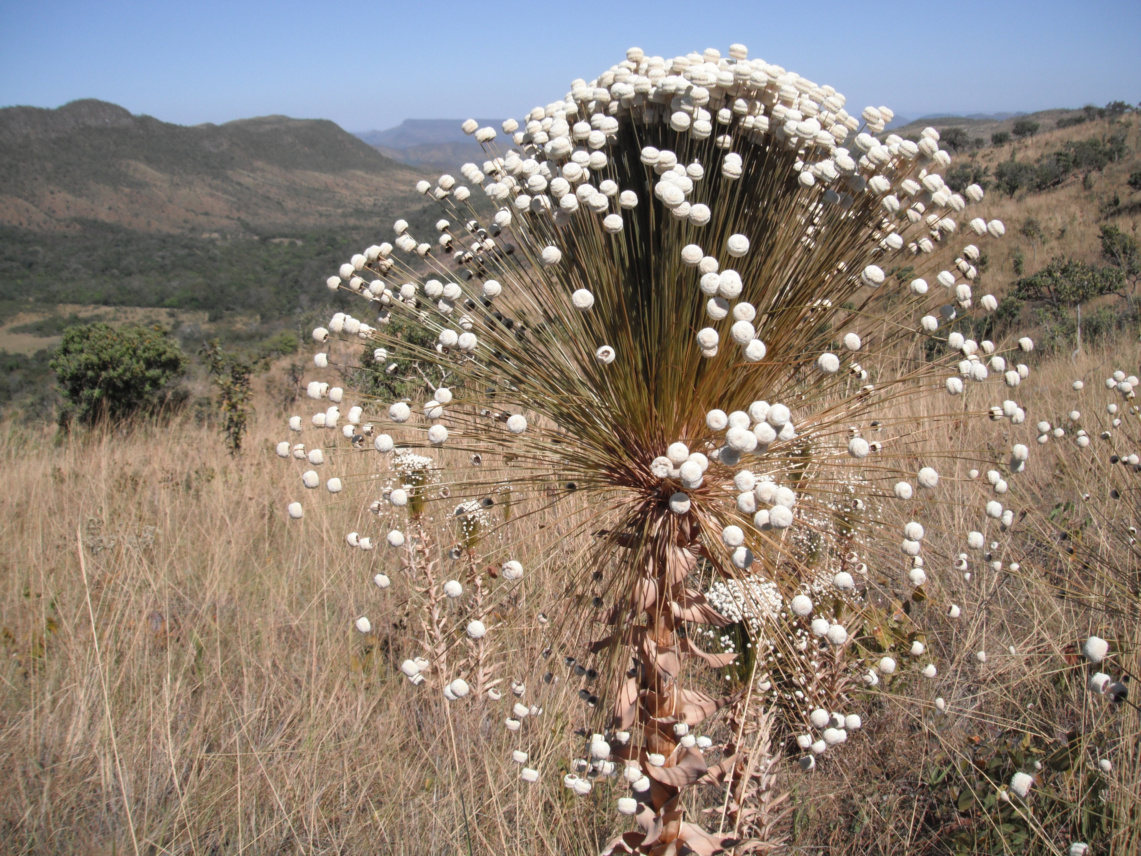 Paepalanthus chiquitensis a conspicous plant of Ericaulaceae family, that lives in Cerrado vegetation of Chapada dos Veadeiros,Goiás state, central Brazil.